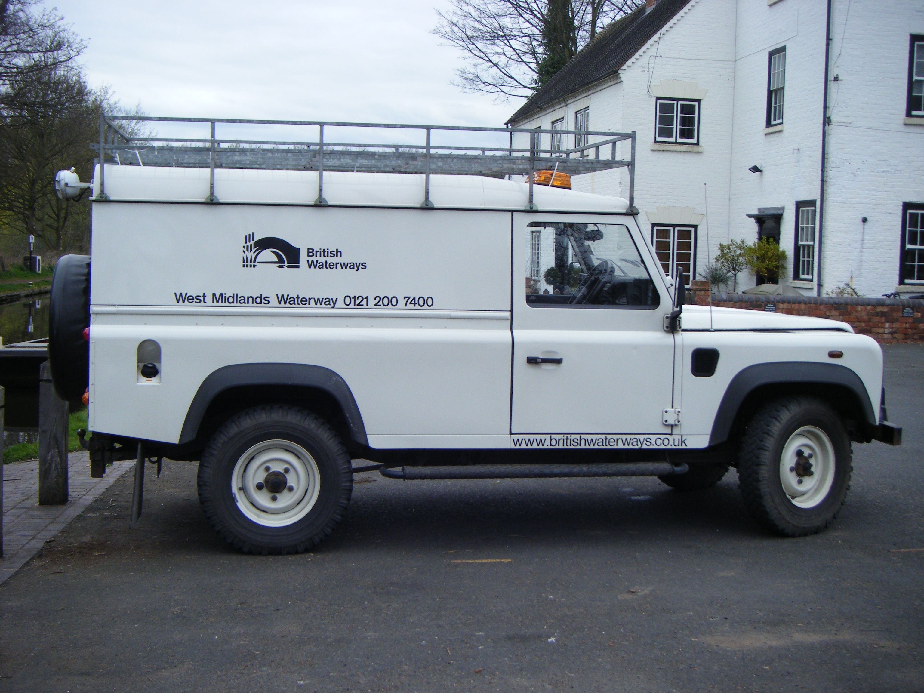 British Waterways Maintenance Yard at Stewponey Lock/Staffordshire&Worcestershire Canal: Behördenfahrzeug Landrover